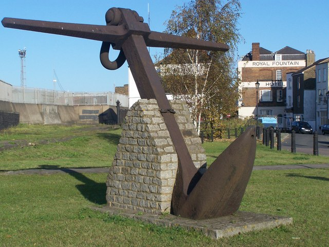 Blue Town Entrance Anchor